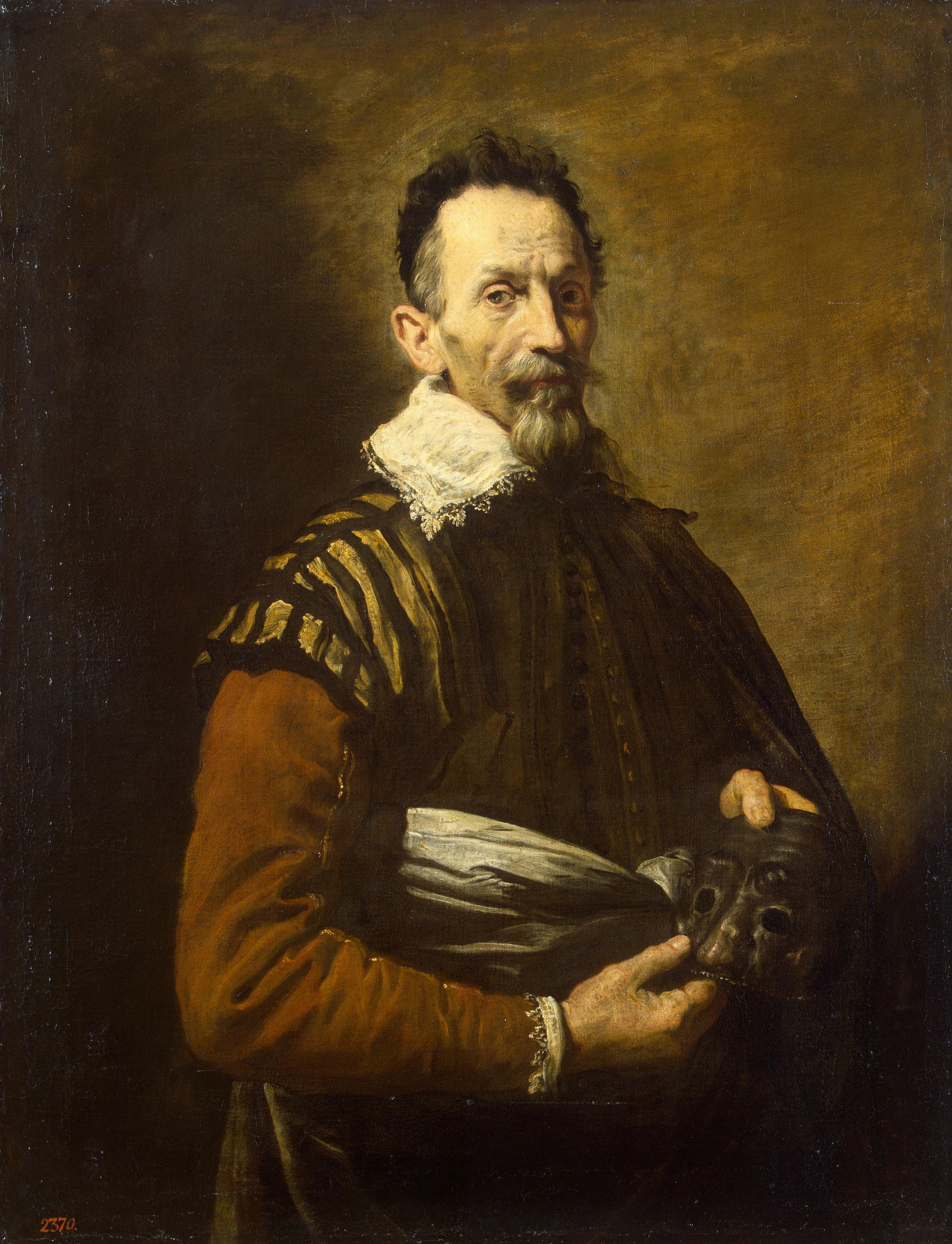 The subject of this portrait is uncertain: the Hermitage Museum suggests Tristano Martinelli or Francesco Andreini. Further information: Category:Portrait of an Actor - Domenico Fetti